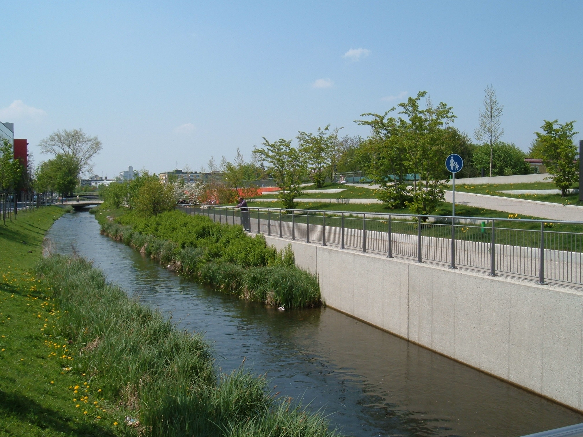 Petuelpark, Munich, Bavarian, Germany